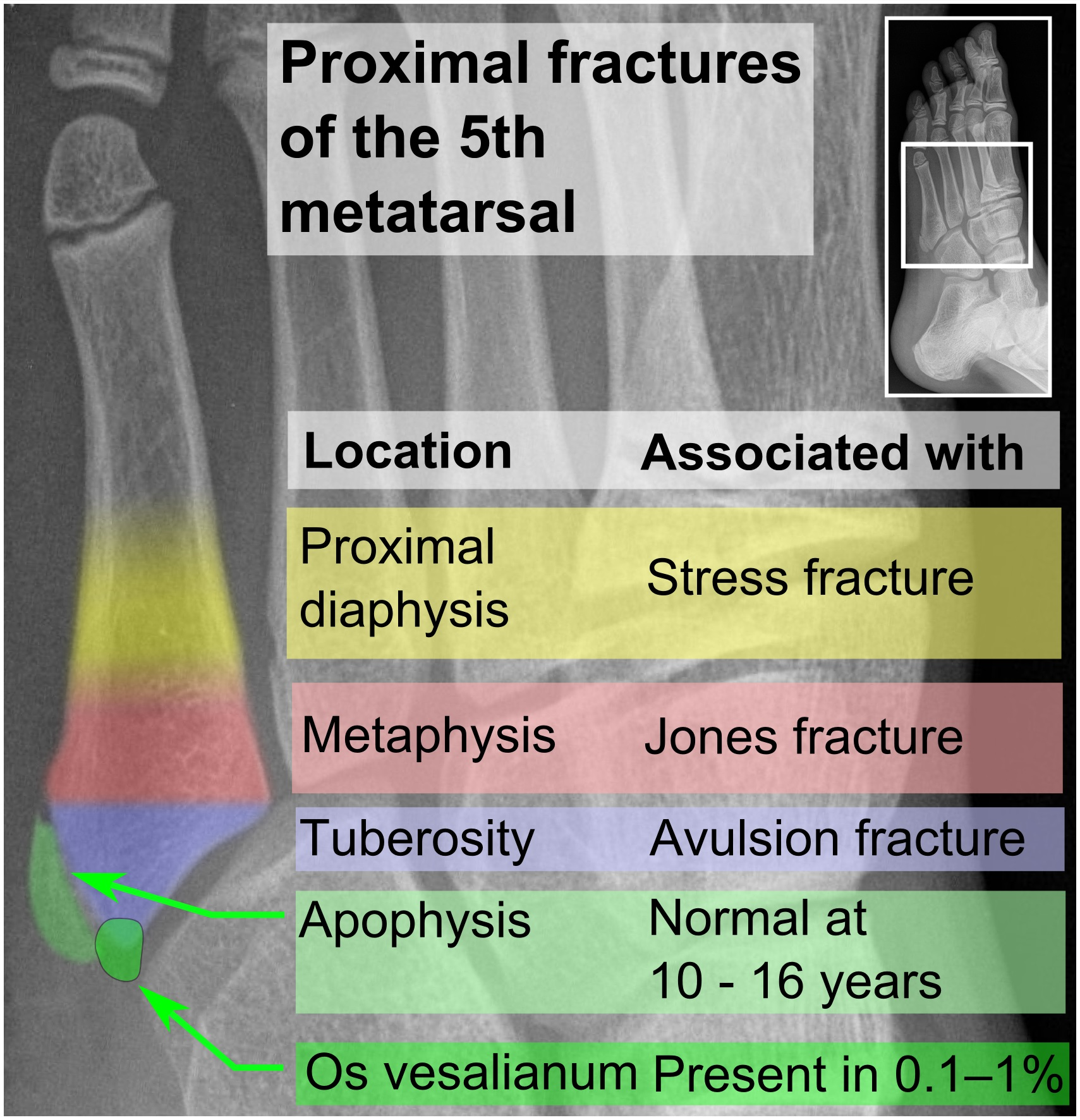 +/−Proximal fractures of 5th metatarsal: Proximal fractures of the fifth metatarsal are common,[1] and are distinguished by their locations: A proximal diaphysis fracture is typically a stress fracture, commonly among athletes.[2][3] A metaphysis fracture is also called a Jones fracture. Due to poor blood supply in this area, such a fracture sometimes does not heal and surgery is required.[4] A tuberosity fracture is also called a pseudo-Jones fracture or a dancer's fracture.[5] It is typically an avulsion fracture.[6] Normal anatomy that may simulate a fracture include mainly: The "apophysis", which is the secondary ossification center of the bone, and is normal at 10 - 16 years of age.[7] Os vesalianum, an accessory bone which is present in between 0.1 - 1% of the population.[8] Template in Wikipedia[edit] To edit image template in Wikipedia, go to: Template:Image of proximal fractures of the 5th metatarsal. Further reading[edit] Fifth_metatarsal_bone#Proximal_fractures.